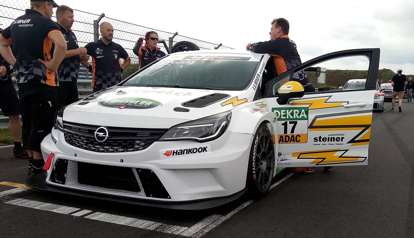 Jasmin Preisig at the 2017 ADAC TCR Germany Championship round at Zandvoort.